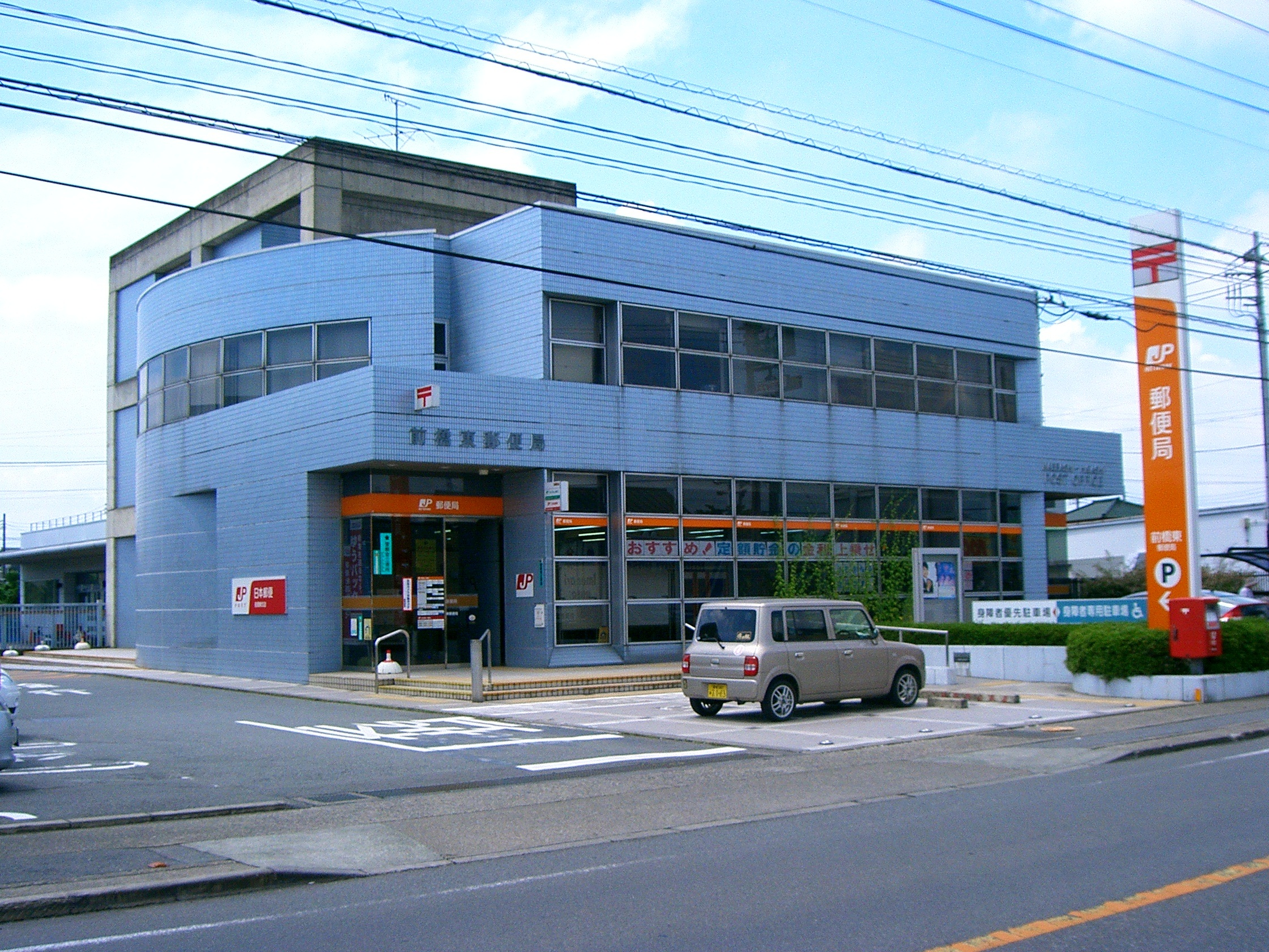 Maebashi Higashi Post Office